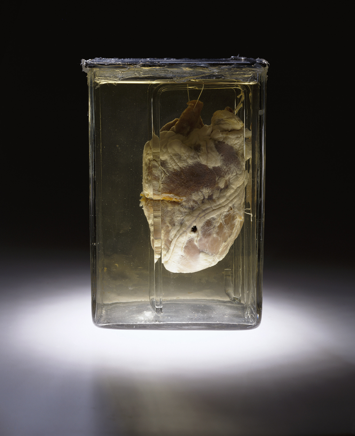 Heart of a 26-year-old man, perforated by a bullet, New York, 1937 Death attributed to homicide.